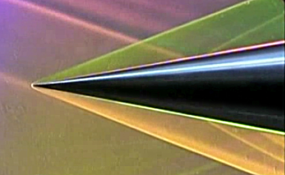 Supersonic airflow in the Penn State University Gas Dynamics Lab's supersonic wind tunnel is shown. The test model is a 10-degree circular cone at zero angle of attack. The flow is axially symmetric about the cone centerline. It is different from the flow over over a planar 2-d wedge of the same angle, but is still two-dimensional.